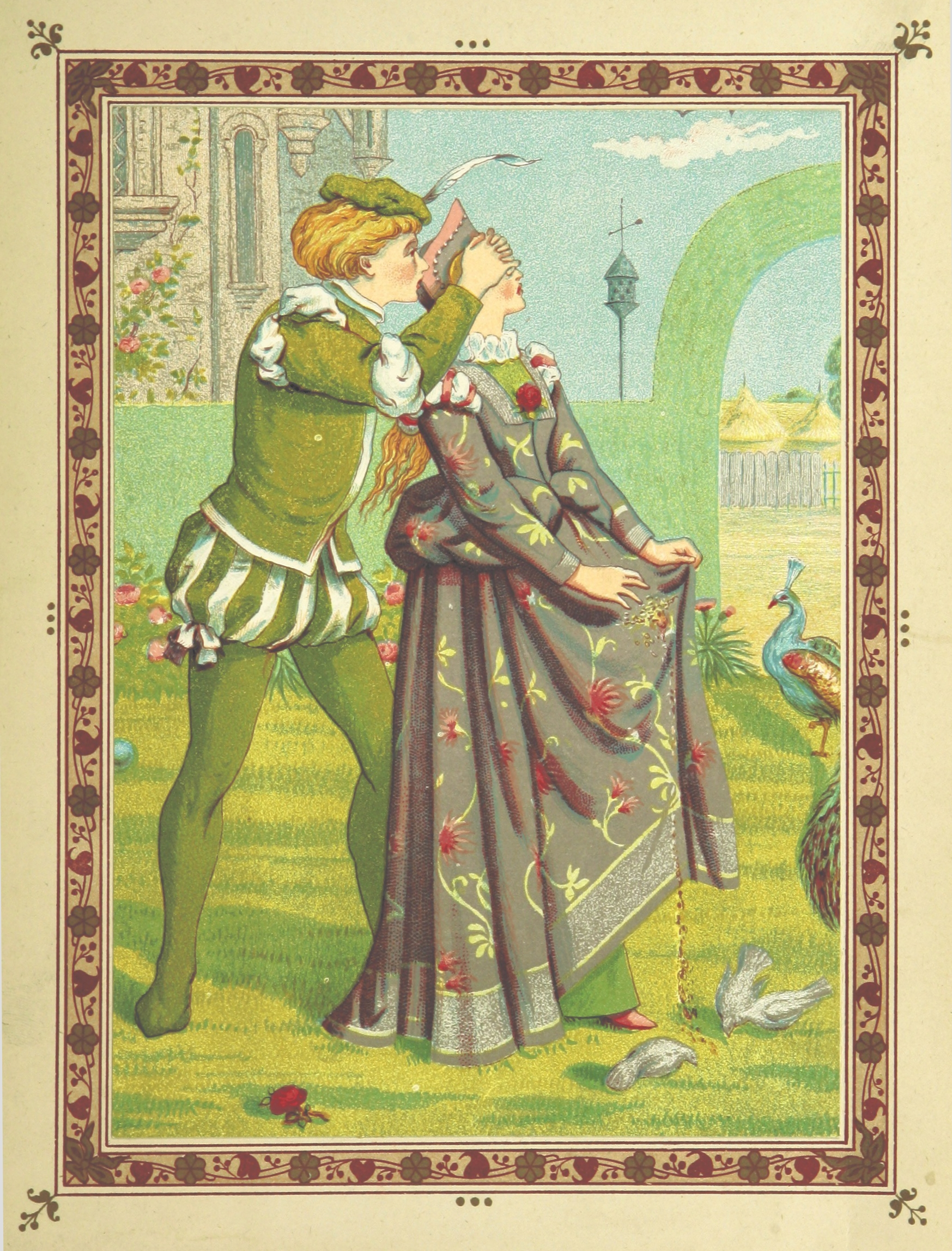 From the book The Quiver of Love: A Collection of Valentines Ancient and Modern, a collection of love poems published in 1876, illustrated by Walter Crane and Kate Greenaway (source). The illustration was created for "The Surprise", a translation of a German poem by Heinrich Heine (source: Google Play eBook edition page 49, 49). It reads: THE SURPRISE I dreamt I saw you yesternight, And claspt my hands about your eyes, Nor dared to venture in your sight Until you pardoned the surprise. So take my letter, Valentine, My name and mission quickly guess — I fear to offer word or sign; I wait until you whisper "Yes." Link to eBook edition.